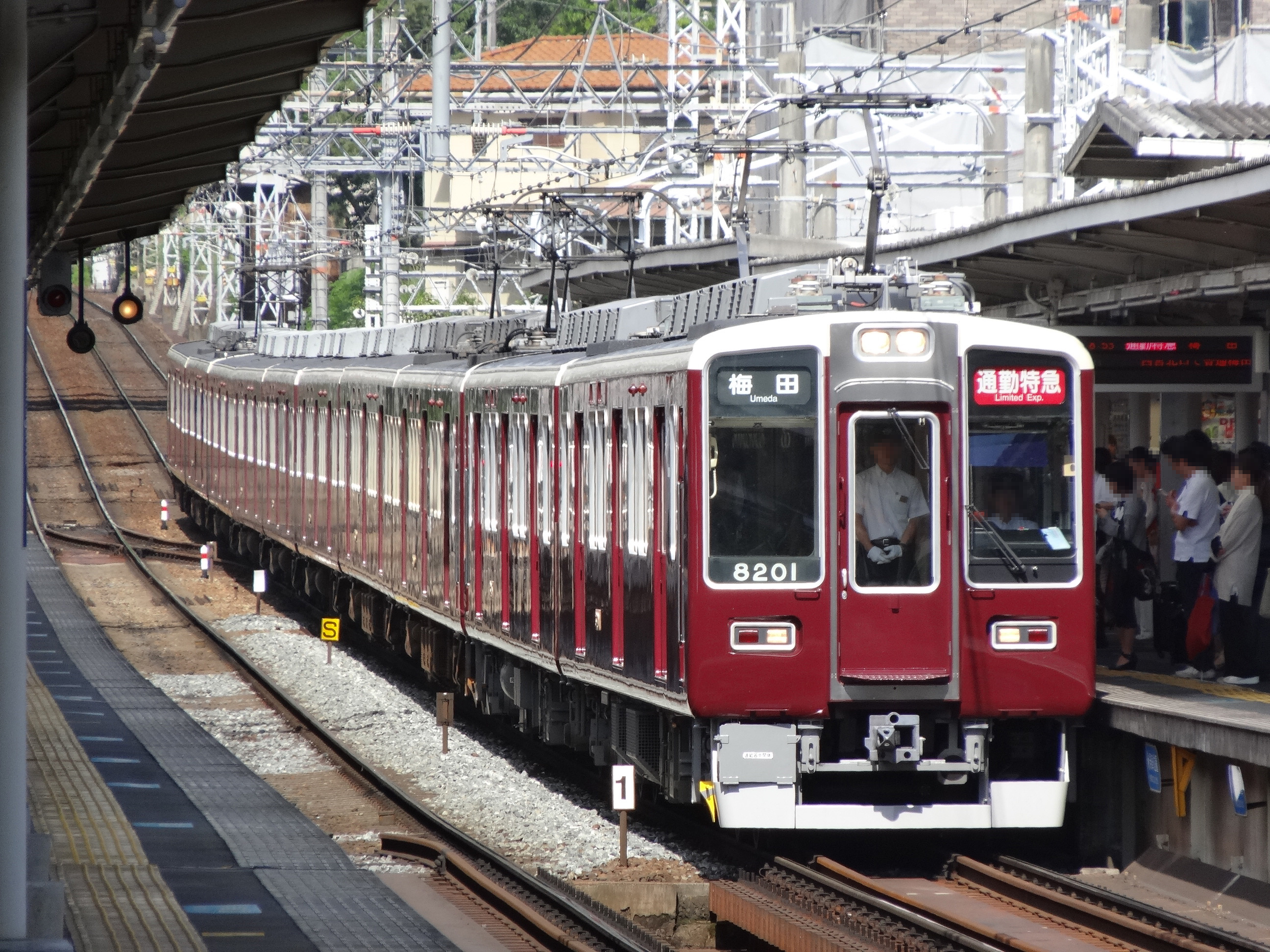 Hankyu Railway 8200 series EMU set 8201 at Shukugawa Station on a Limited Express service for Umeda